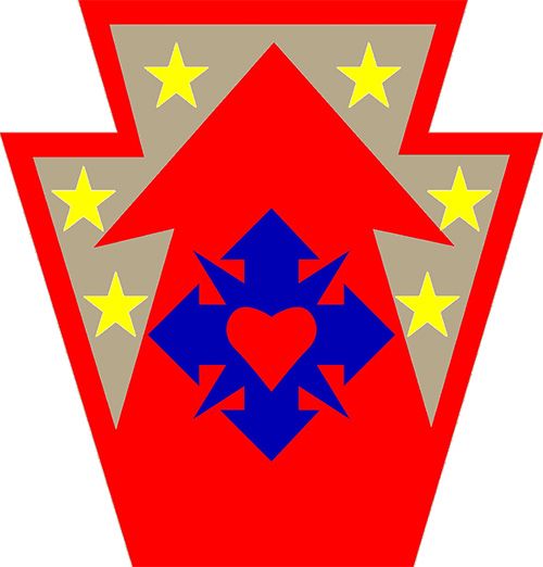 Shoulder Sleeve Insignia of the 2-13th Area Support Group - US Army Institute Of Heraldry